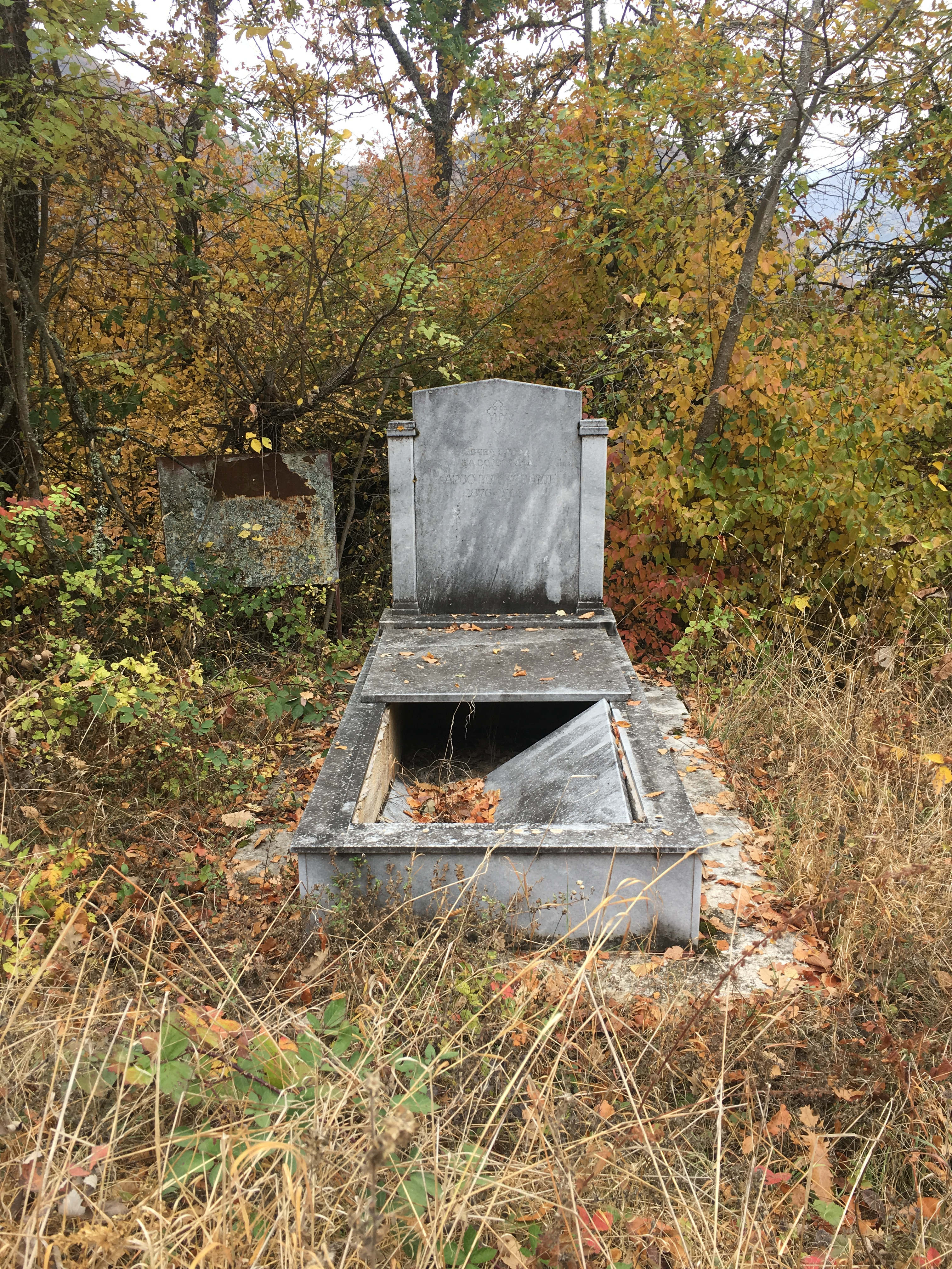 Wikiexpedition to Kopačka